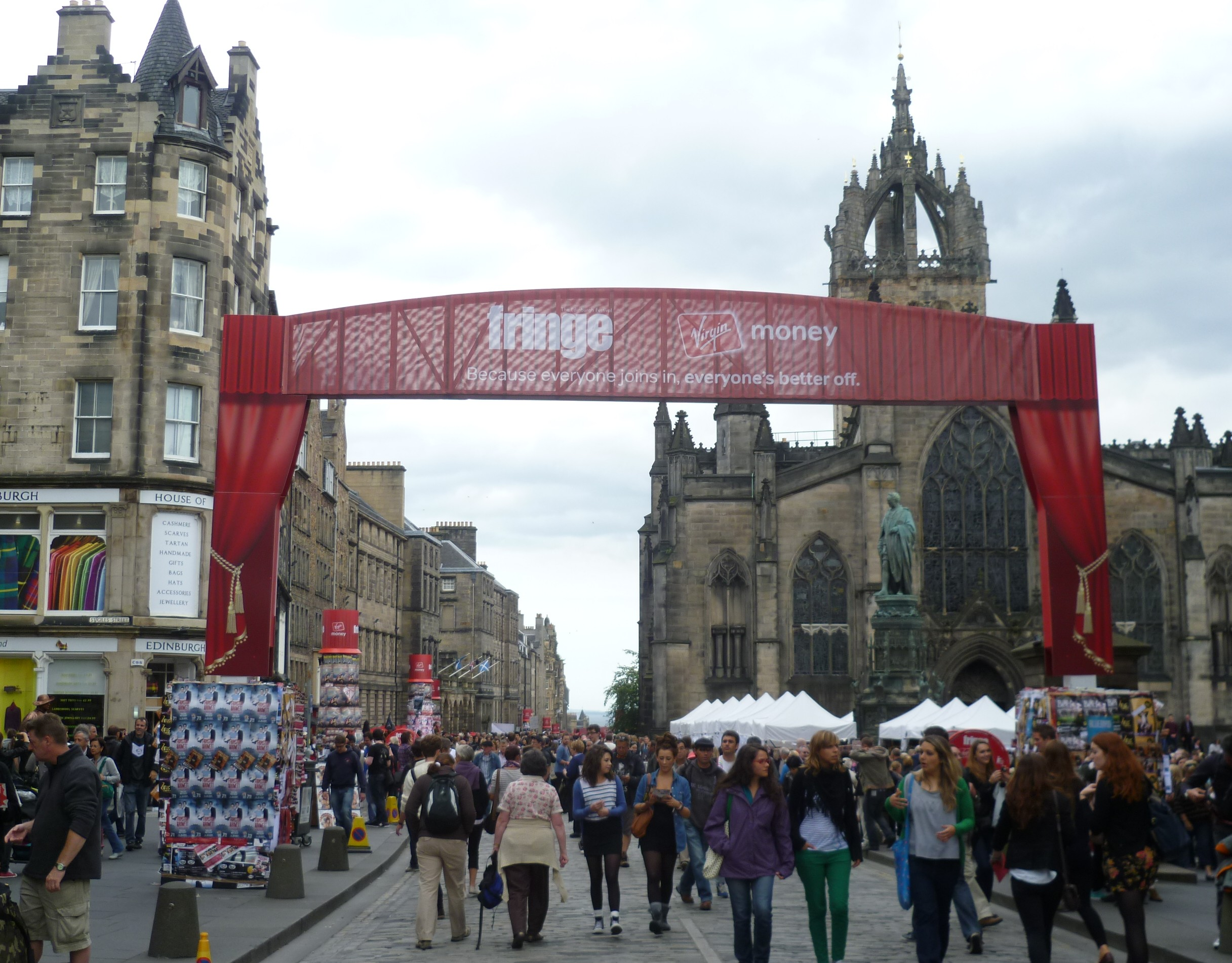 Edinburgh Festival Fringe, 2011